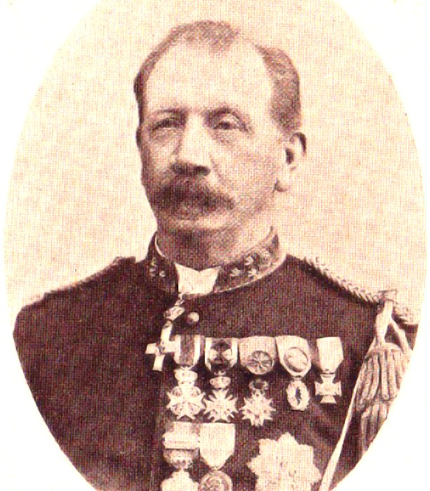 GEVL van Zuylen